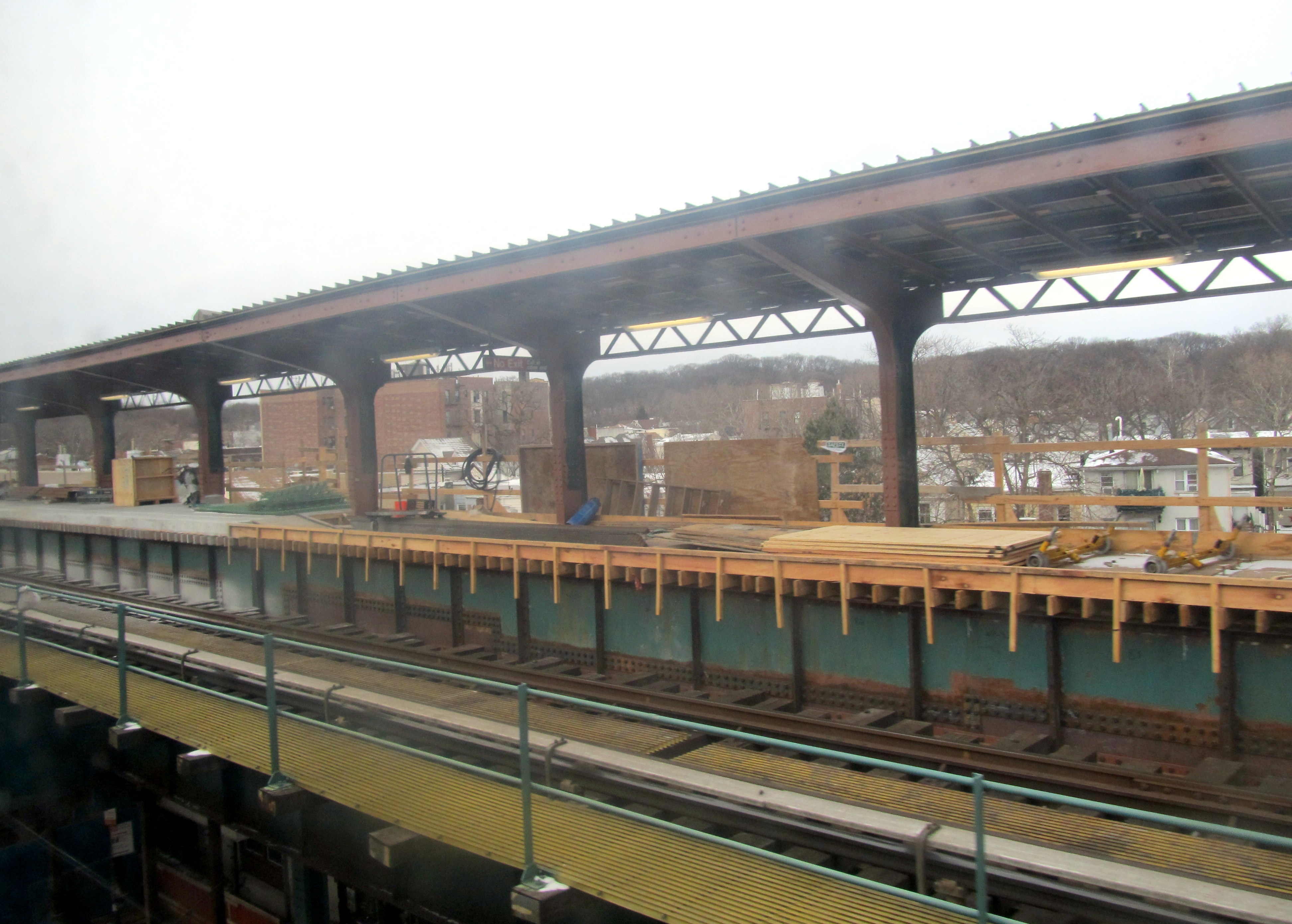 Manhattan-bound platform construction at 104th Street station in December 2017